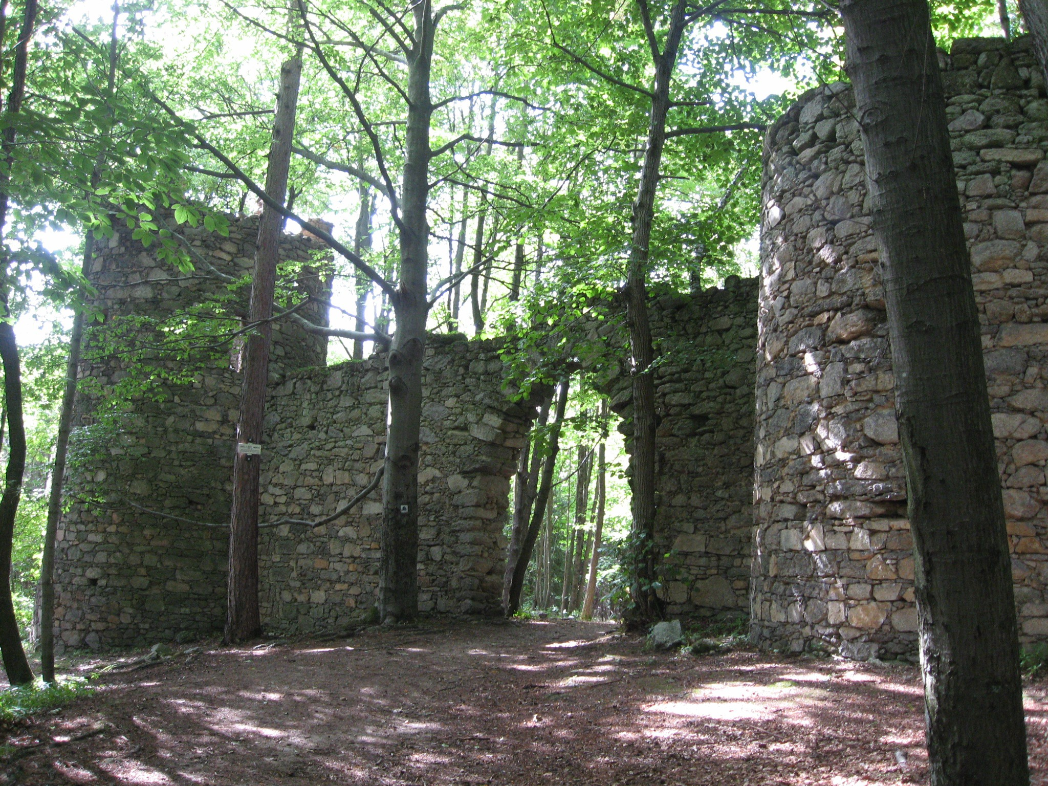 Prašivice - artificial ruins, (Klatovy District, Czech Republic)